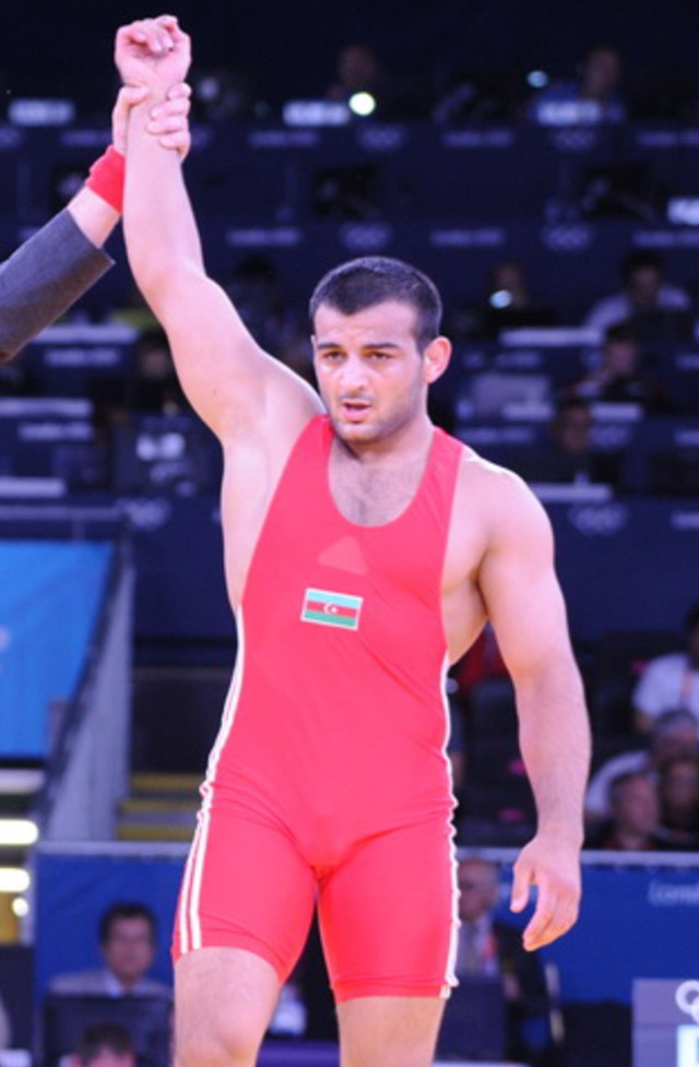 Emin Ahmadov. Greco-Roman wrestling competition of the London 2012 Games